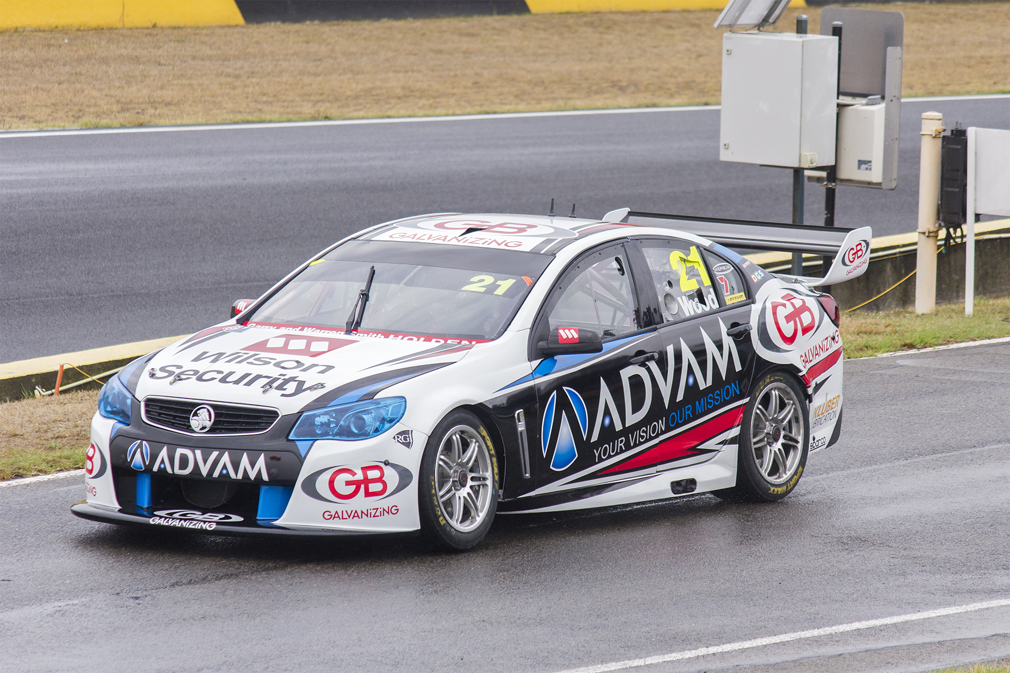 Dale Wood in Britek Motorsport car 21, departing pitlane during the V8 Supercars Test Day at Sydney Motorsport Park.